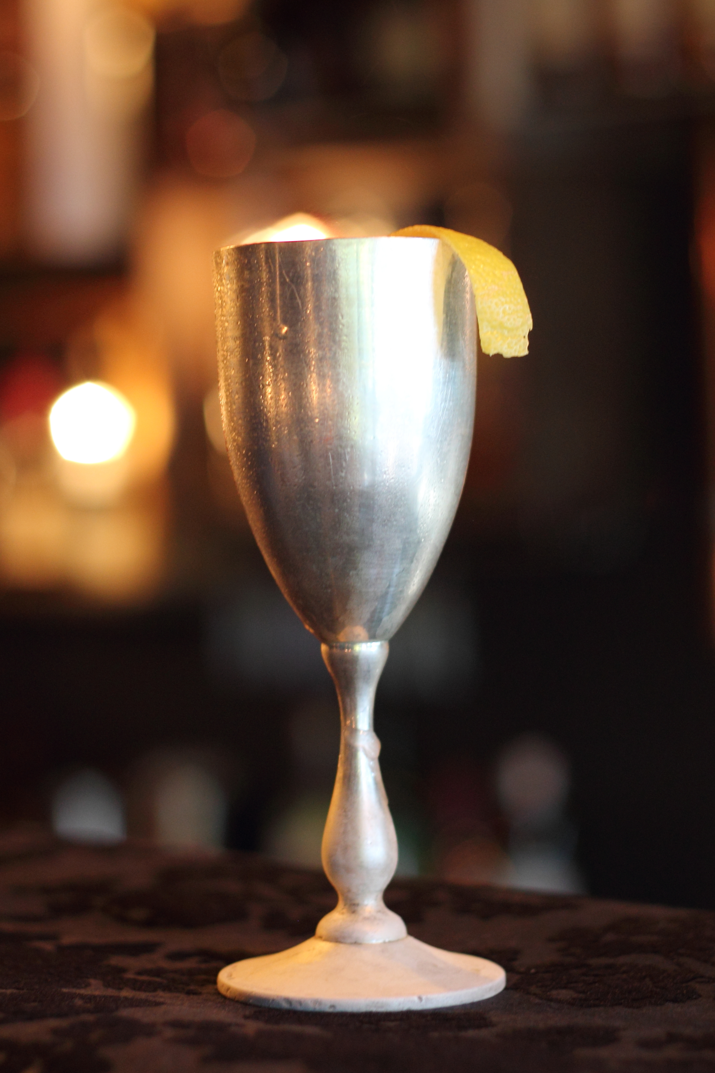 Prince of Wales cocktail in prechilled silver cup.